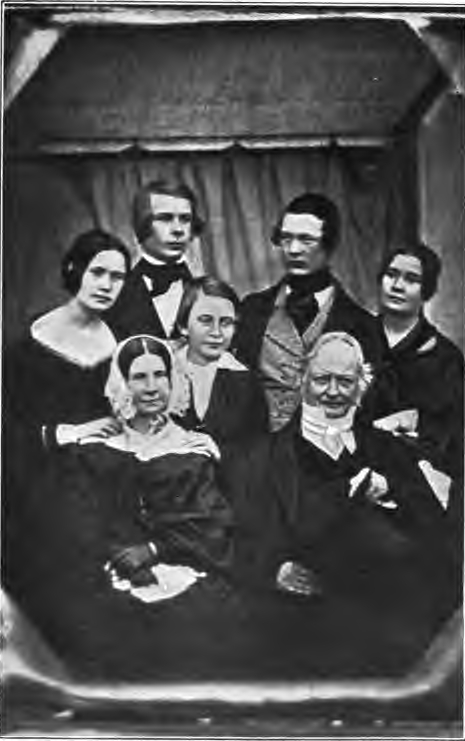 Daguerreotype of Johan Gabriel Richert (1784-1864) with his family. (From back left, Edla, Josef, Gustaf, Johan and Ida. From front right: Sophie Richert, J.G. Richert